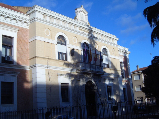 Provincial Govern Palace of Guadalajara, Spain